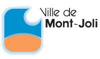 emblem of Mont-Joli